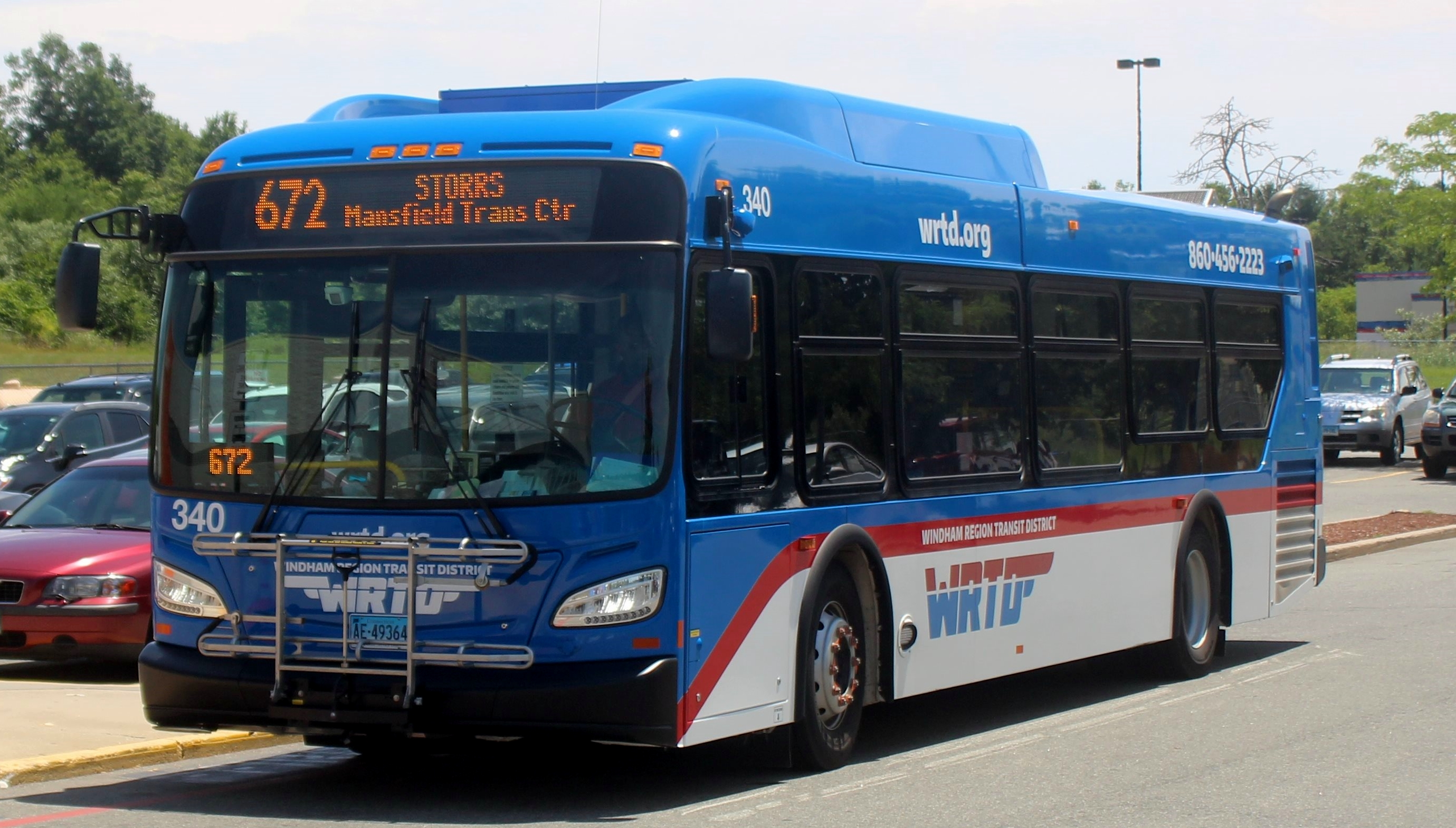 A WRTD bus at the Walmart in North Windham, CT